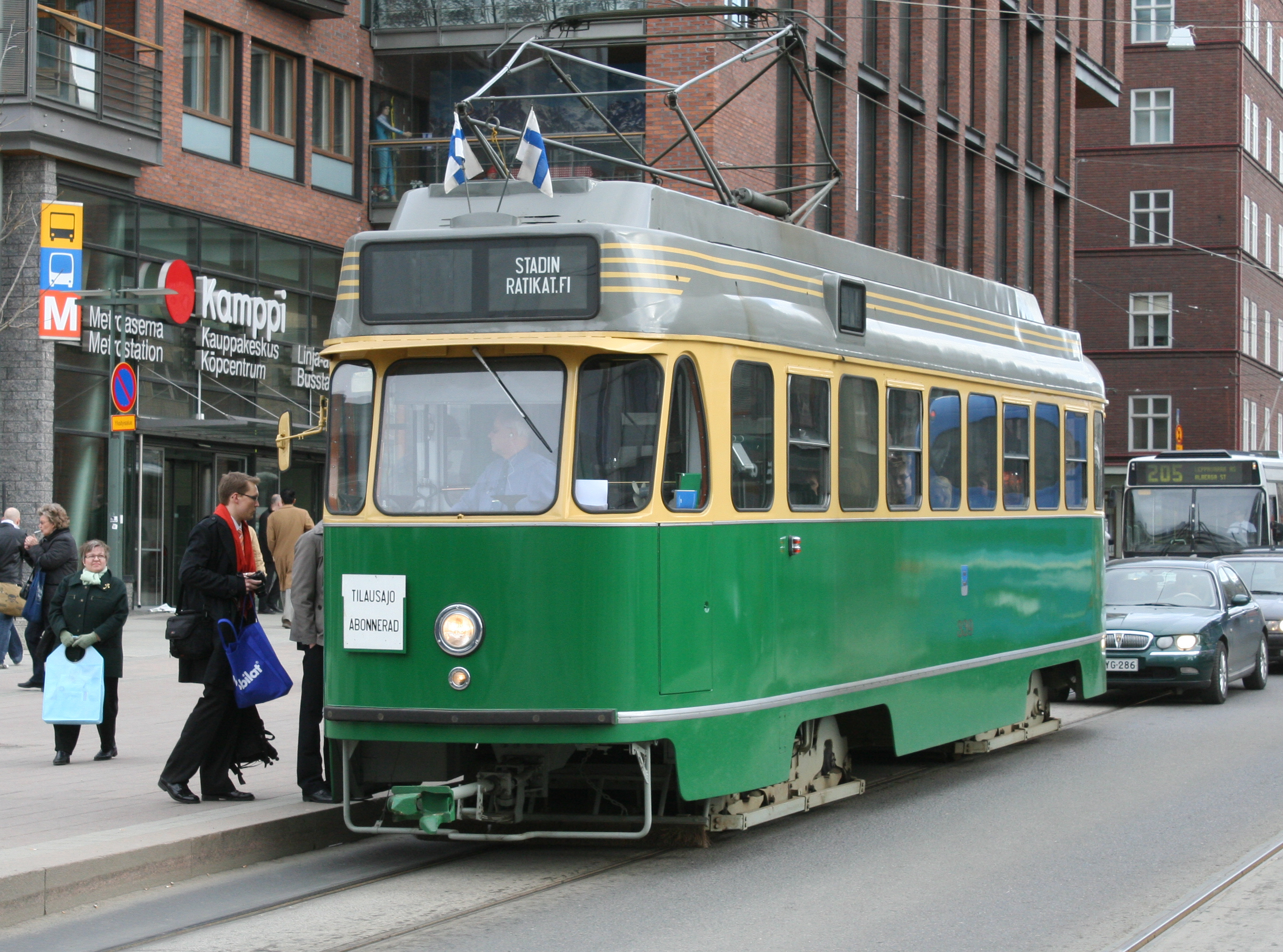 Helsinki City Transport tram number 339, a restored RM1 type tram owned by Stadin Ratikat Oy, on charter drive on the new tracks on Fredrikinkatu in Kamppi. This particular tram was built in 1955 by Valmet. It was withdrawn from active service in 1987 and subsequently used as an advertisement tram. Following acquisition by Stadin Ratikat the tram was taken to Tallinn for restoration in 2002. The restoration was completed in Helsinki in 2004.